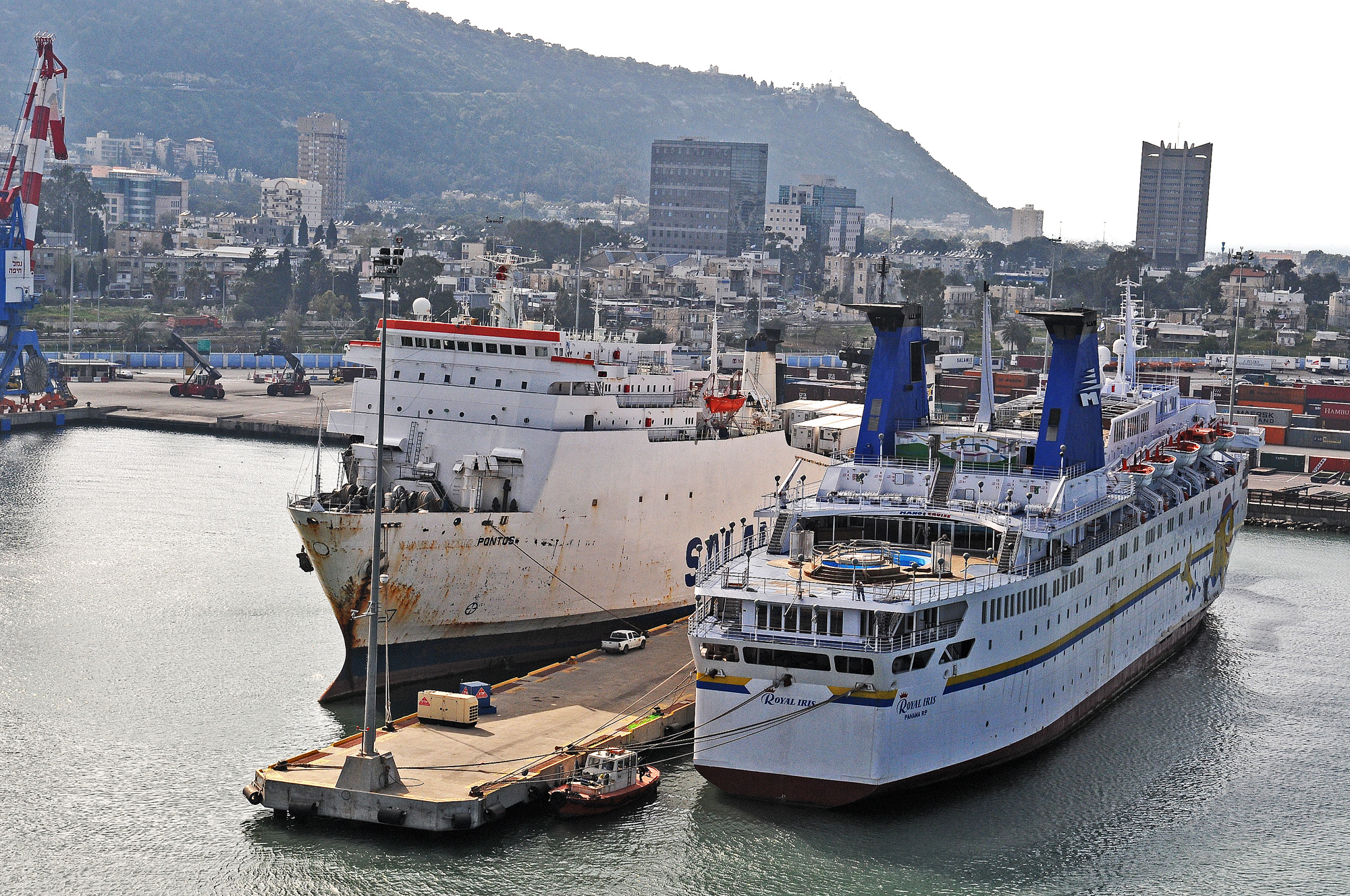 The Port of Haifa, the largest of Israel's three major international seaports - cargo ship next to cruise ship ("Royal Iris")